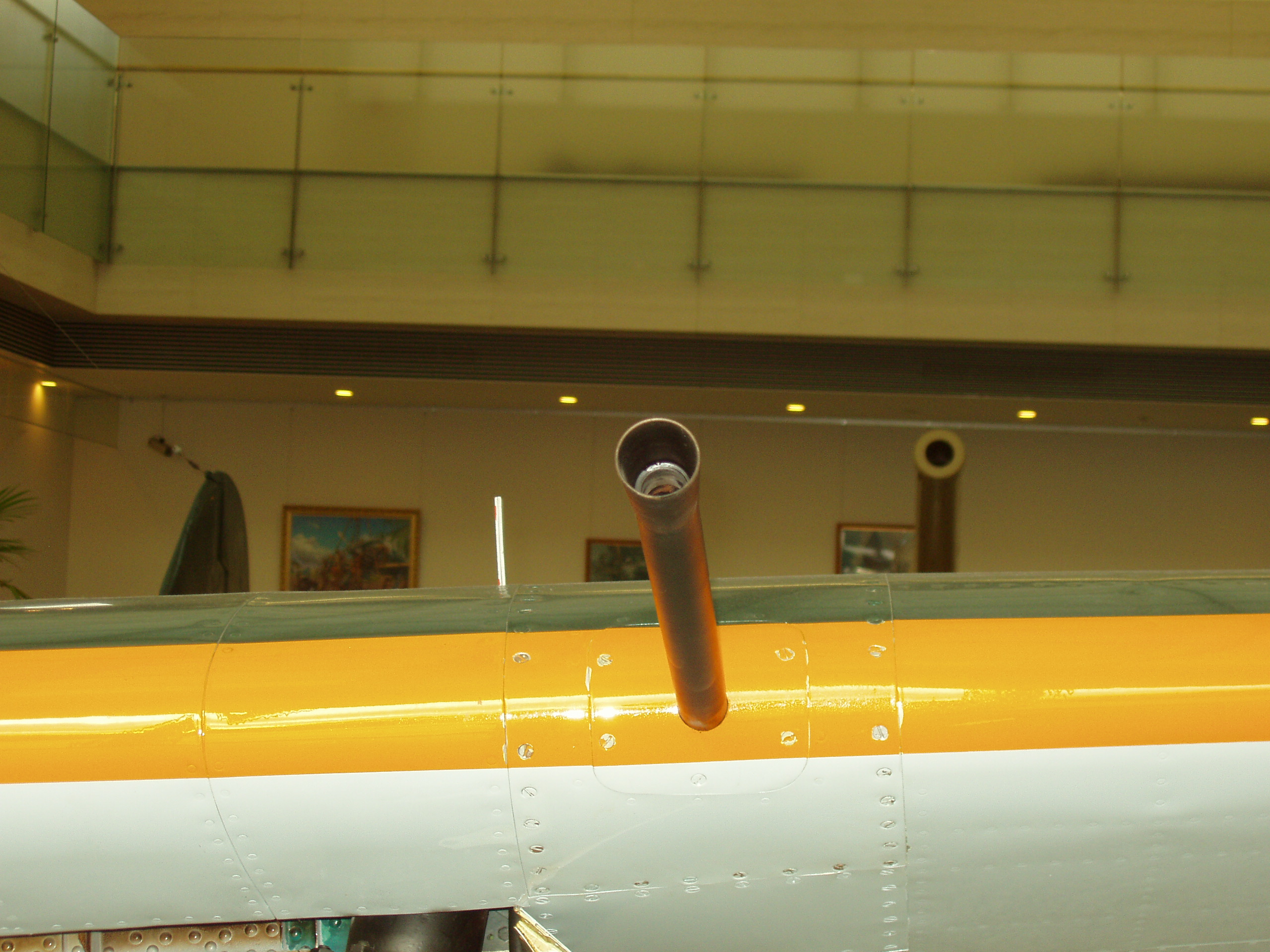 Japanese 20mm machine-gun type 99-2 installed in a Zero model 52 exhibited in Yusyukan (with the Yasukuni shrine). This photo was contributed as public domain by the original uploader GoPostal！.